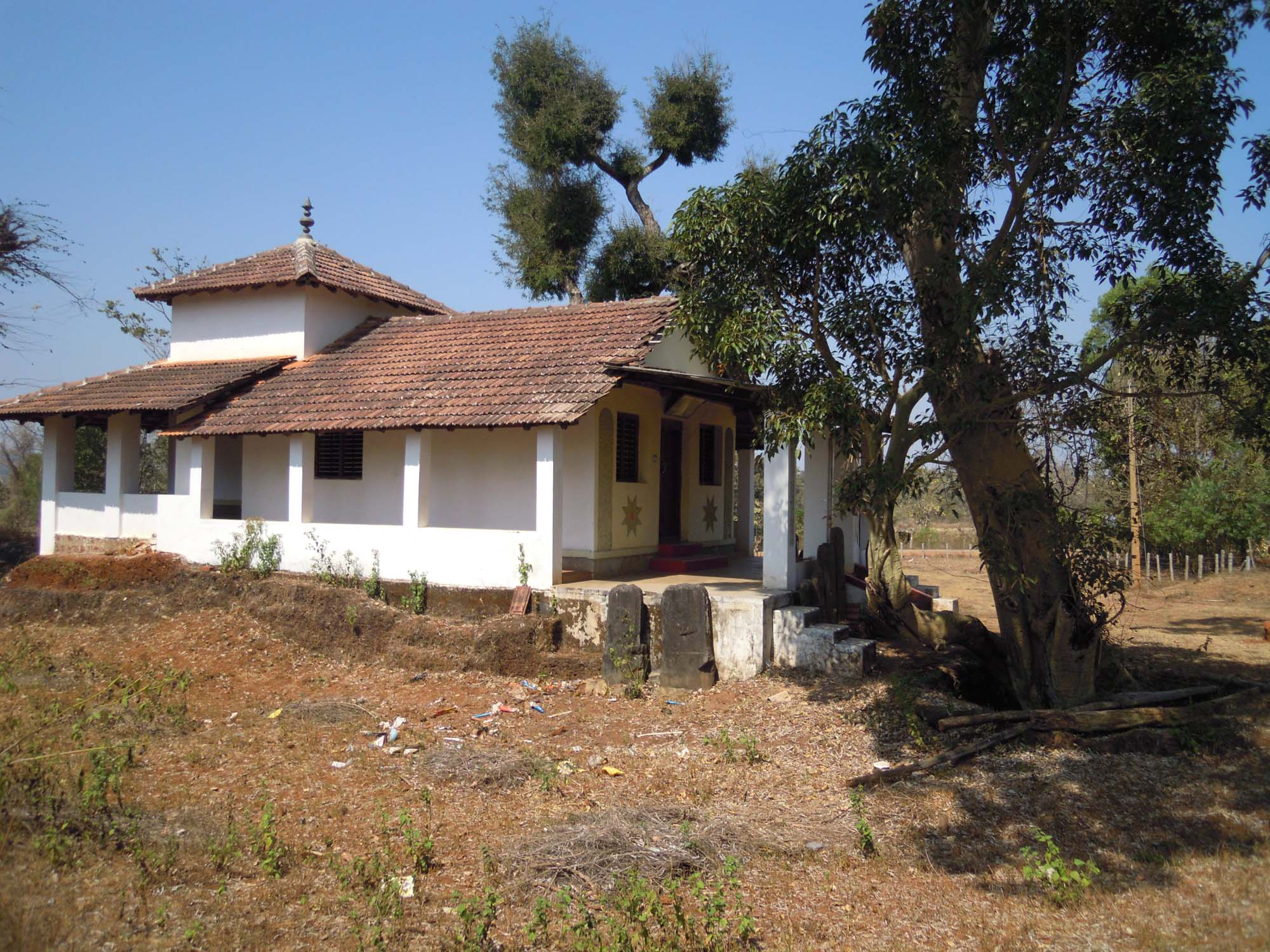 Beautiful temple of South India